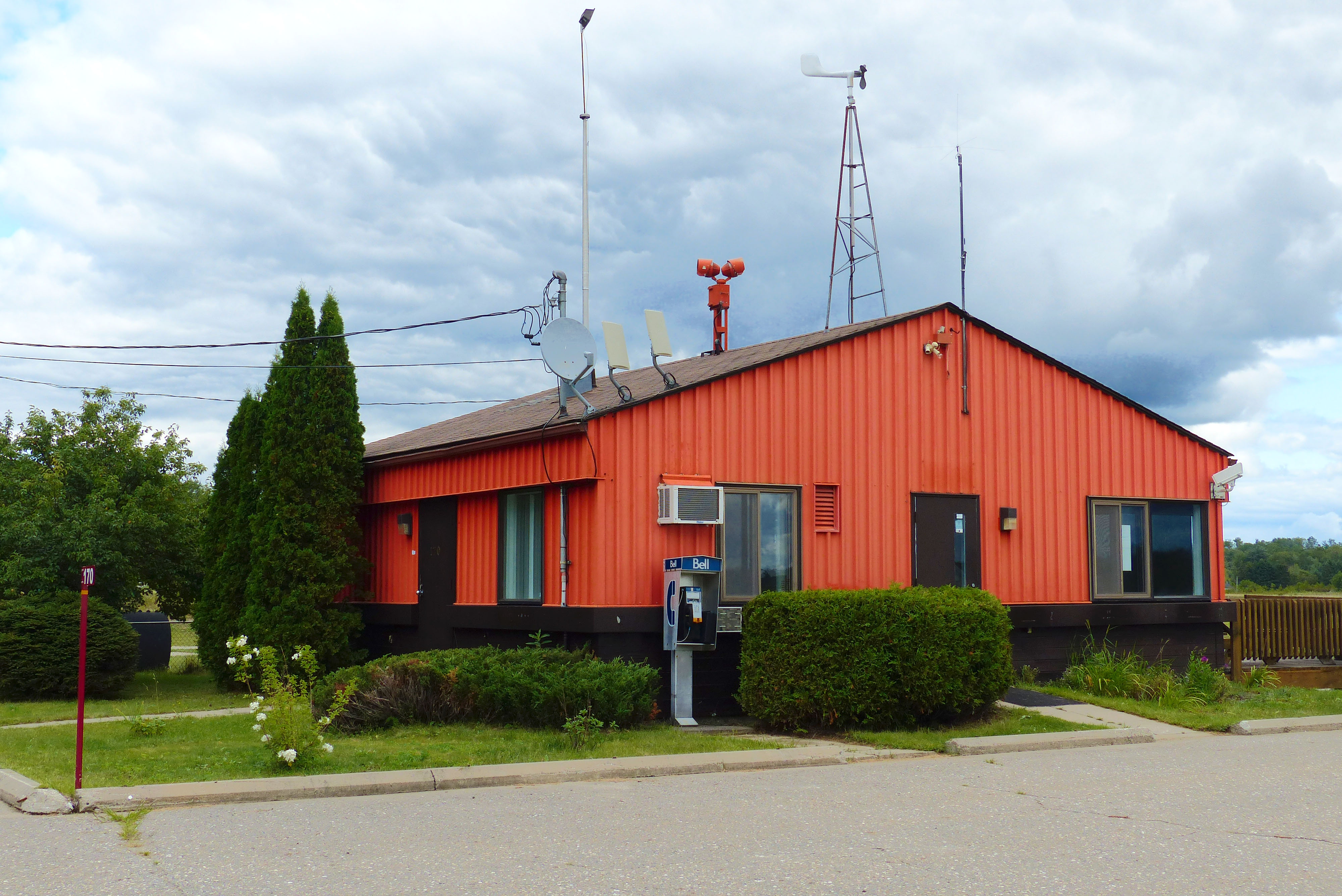 The terminal building at Maniwaki Airport, Quebec, Canada.